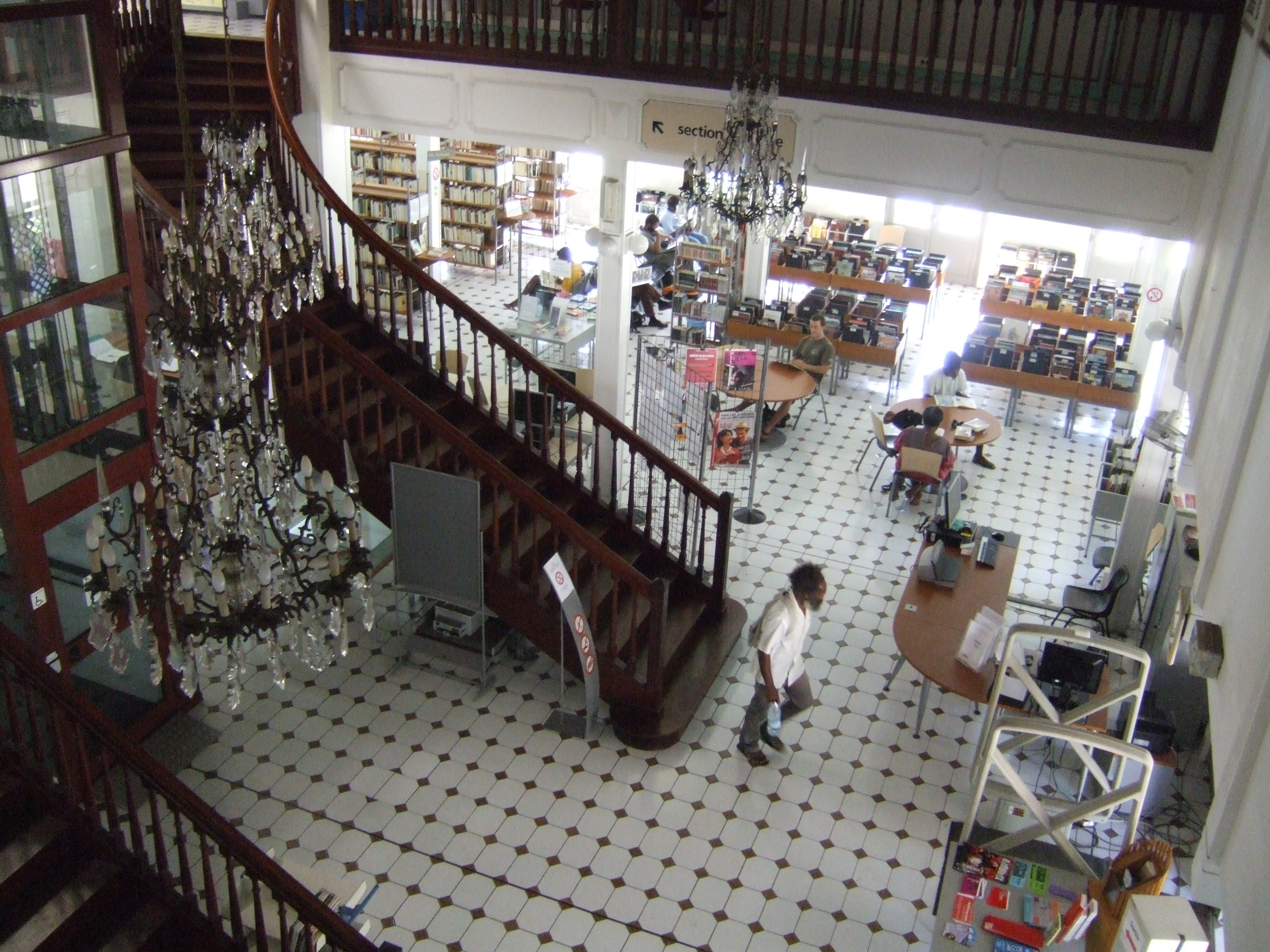 Interior view of Bernheim Library, Noumea Other information Photo by George Garrigues